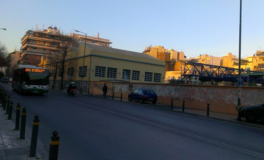 stathmos Attikis and Liosion street